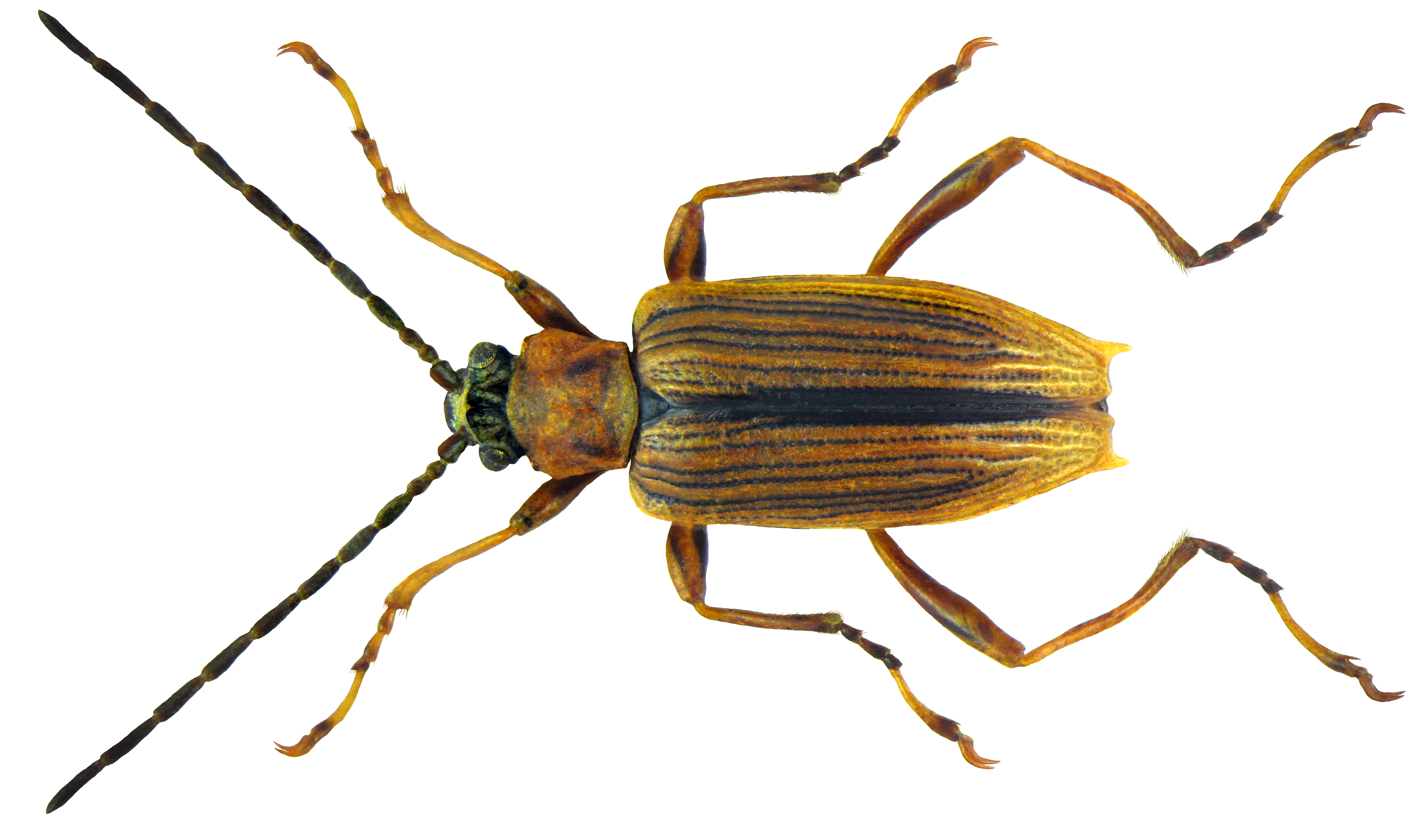 Family: Chrysomelidae Size: 4.5 to 6.0 mm Distribution: Central Europe, Northern Europe, Southern Ecology: lives in the brackish waters of the Baltic and North Seas on Ruppia maritima Location: England P.Harwood coll Pres, 1957, Coll. Museum of Oxford Photo: U.Schmidt, 2011